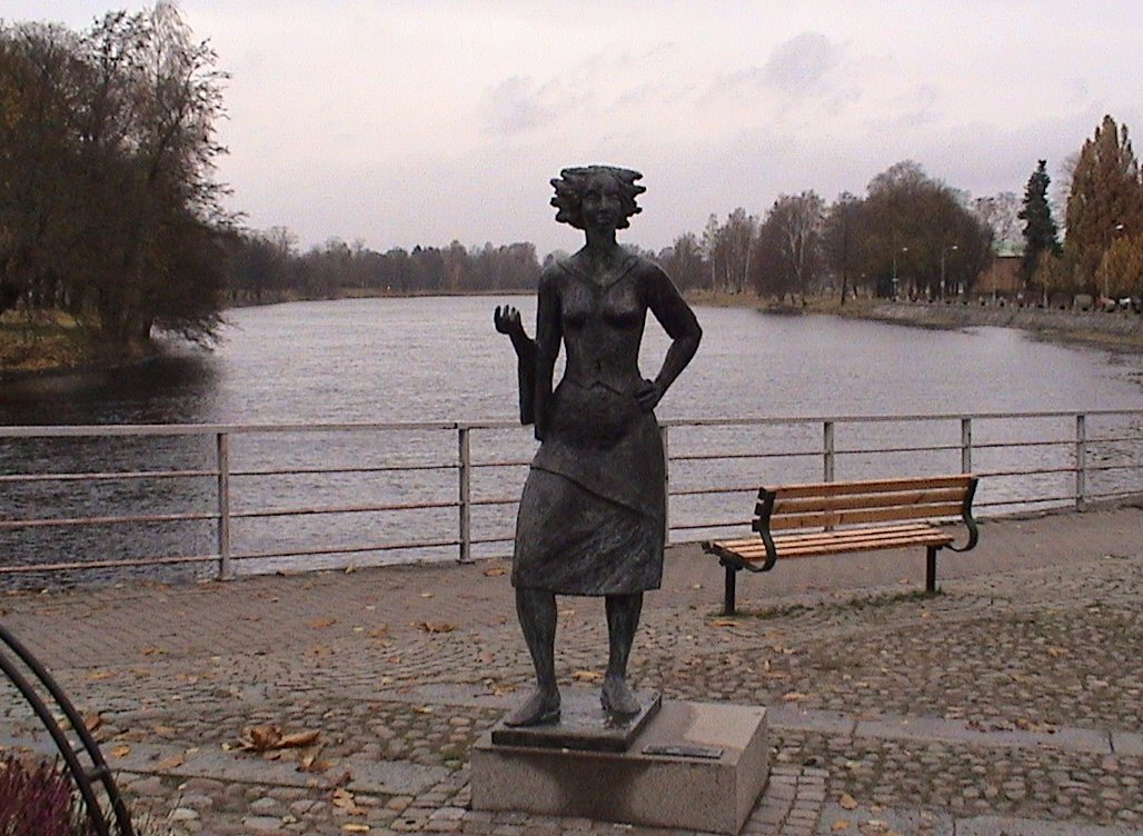 Statue of the famous waitress Sola i Karlstad in Karlstad.